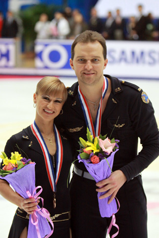 Tatiana Volosozhar / Stanislav Morozov (3nd) at the 2009 Cup of China.